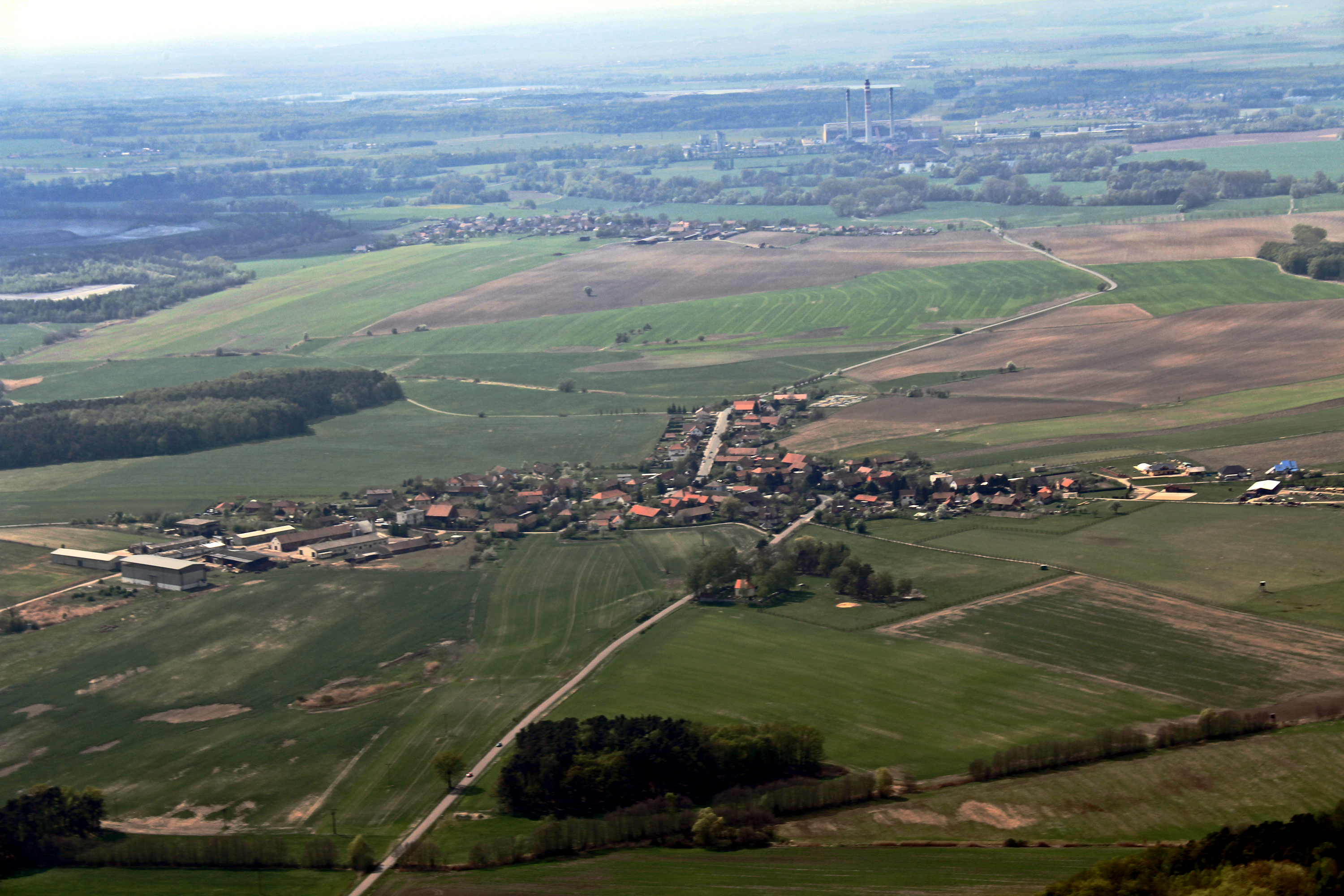 Village Borek from air (power station Opatovicee on backgound), eastern Bohemia, Czech Republic